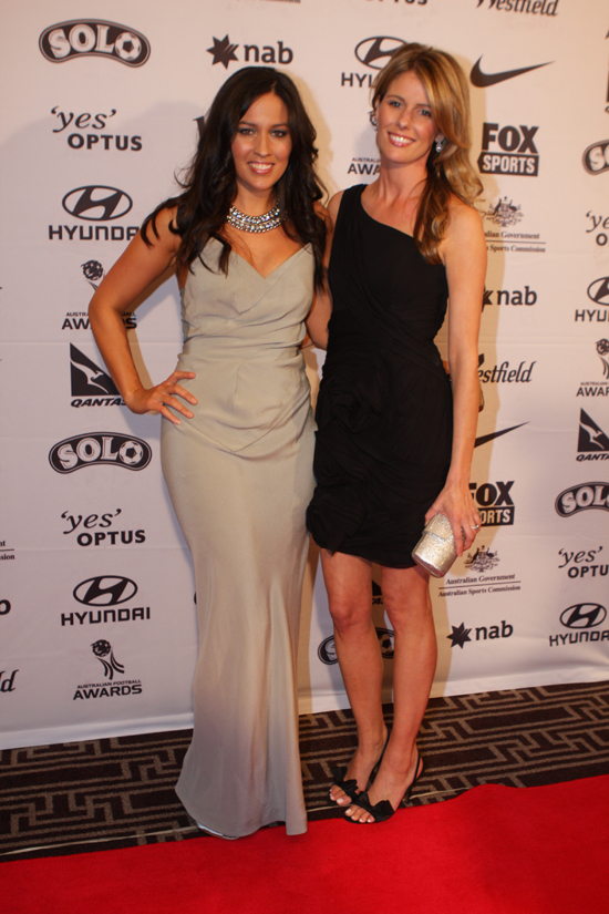 Mel McLaughlin and Lara Pitt at Australian Football Awards 2011